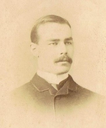 Percy Alport Molteno. Cape Parliamentarian and Shipping Magnate